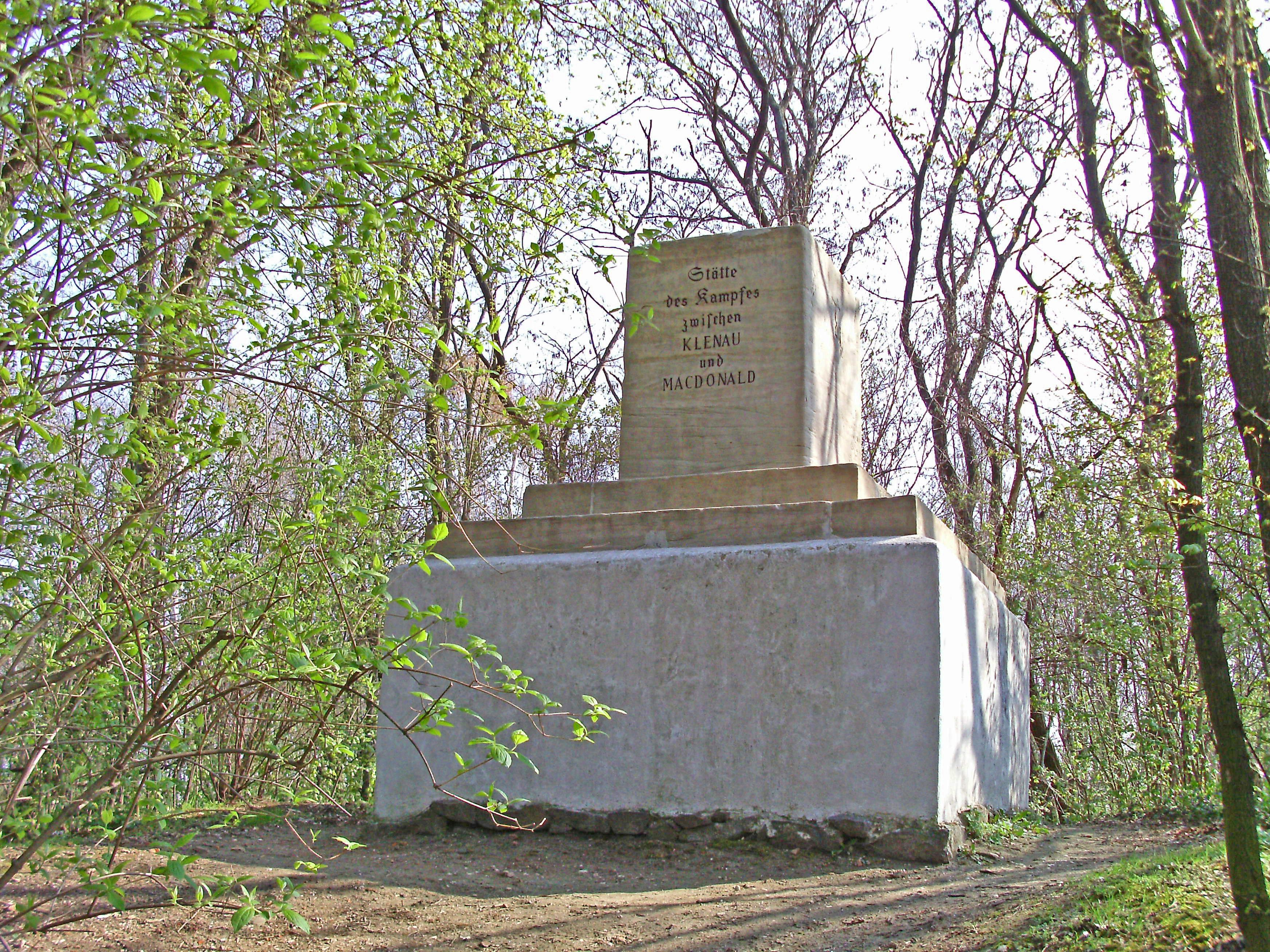 Memorial to the Battle of Leipzig at Kolm Hill near Holzhausen (Leipzig, Saxony)